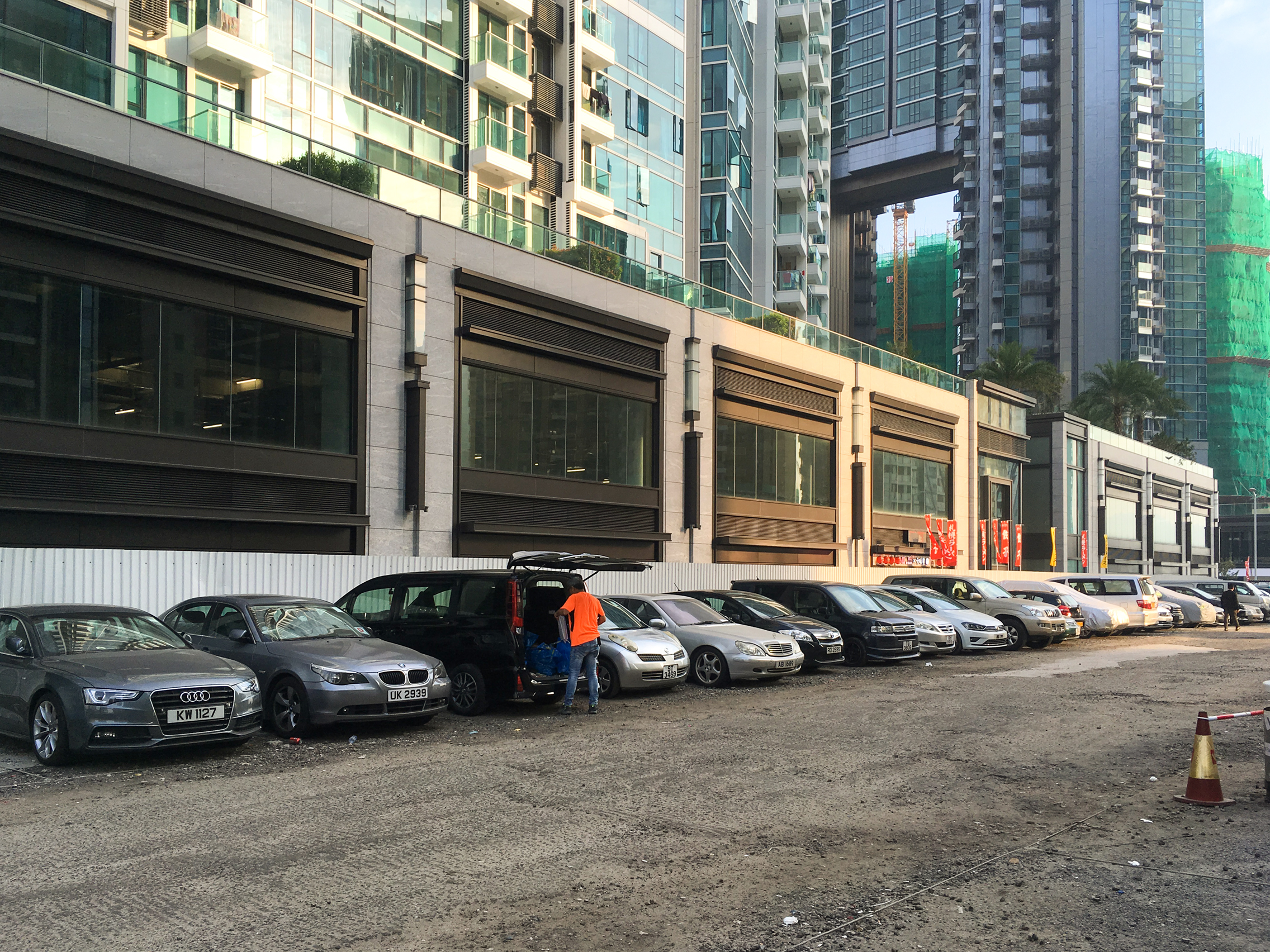 The Parkside Place